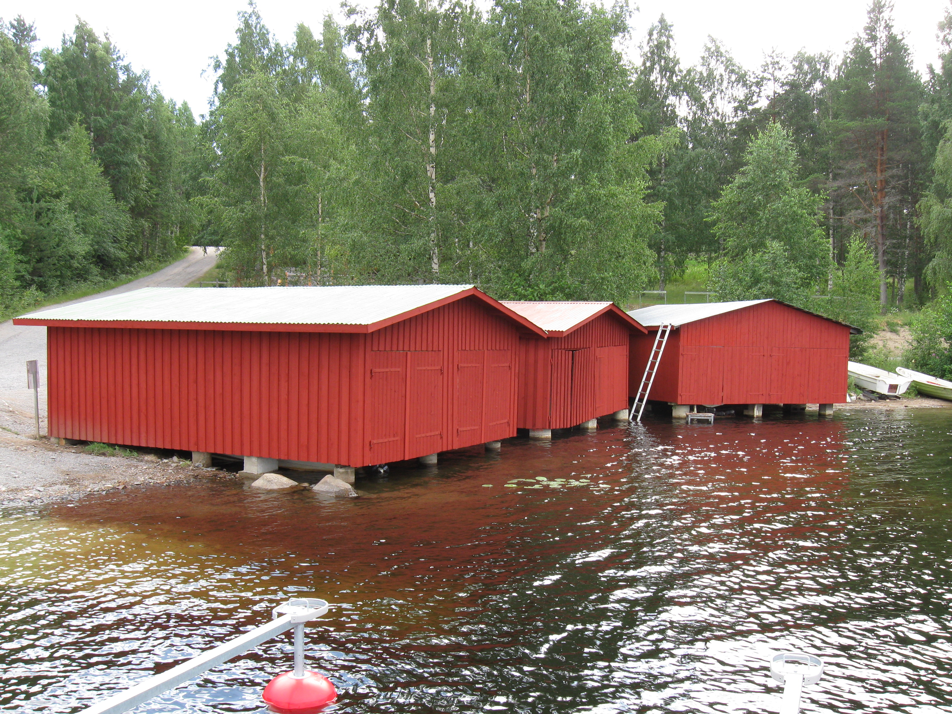 Boat huts at the Niukkala guest harbour at the Pyhäjärvi lake in Uukuniemi, Parikkala, Finland.